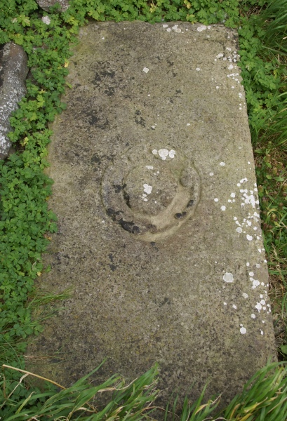 St Olaf's Church, Lunda Wick, Unst, Shetland, Scotland - tombstone from a Hanze merchant, 1573